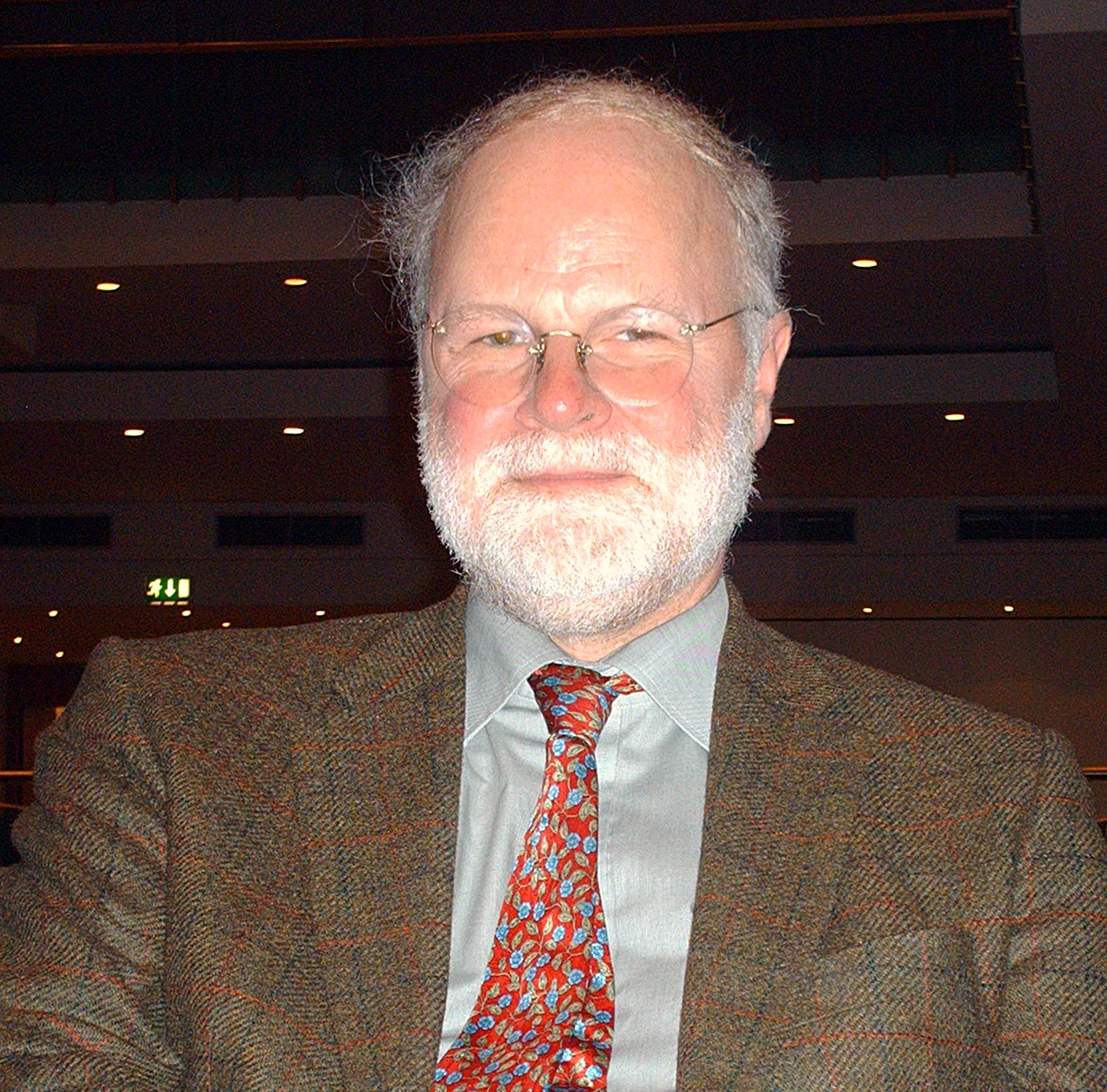 Manfred Lütz check usage